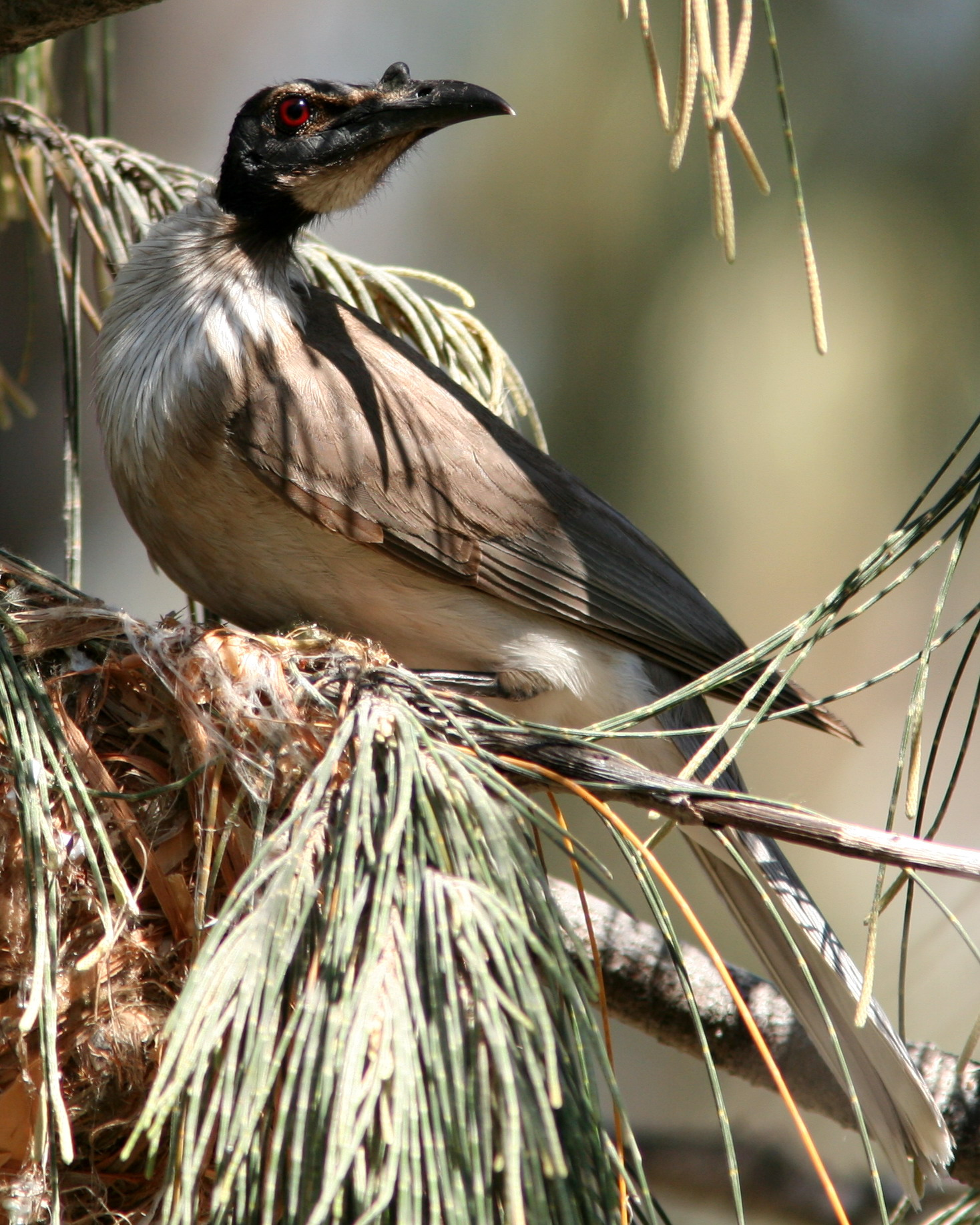 Noisy Friarbird, Philemon corniculatus